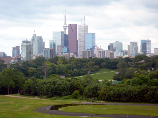 The skyline of Toronto looking across Riverdale Park, just off Broadview Avenue.